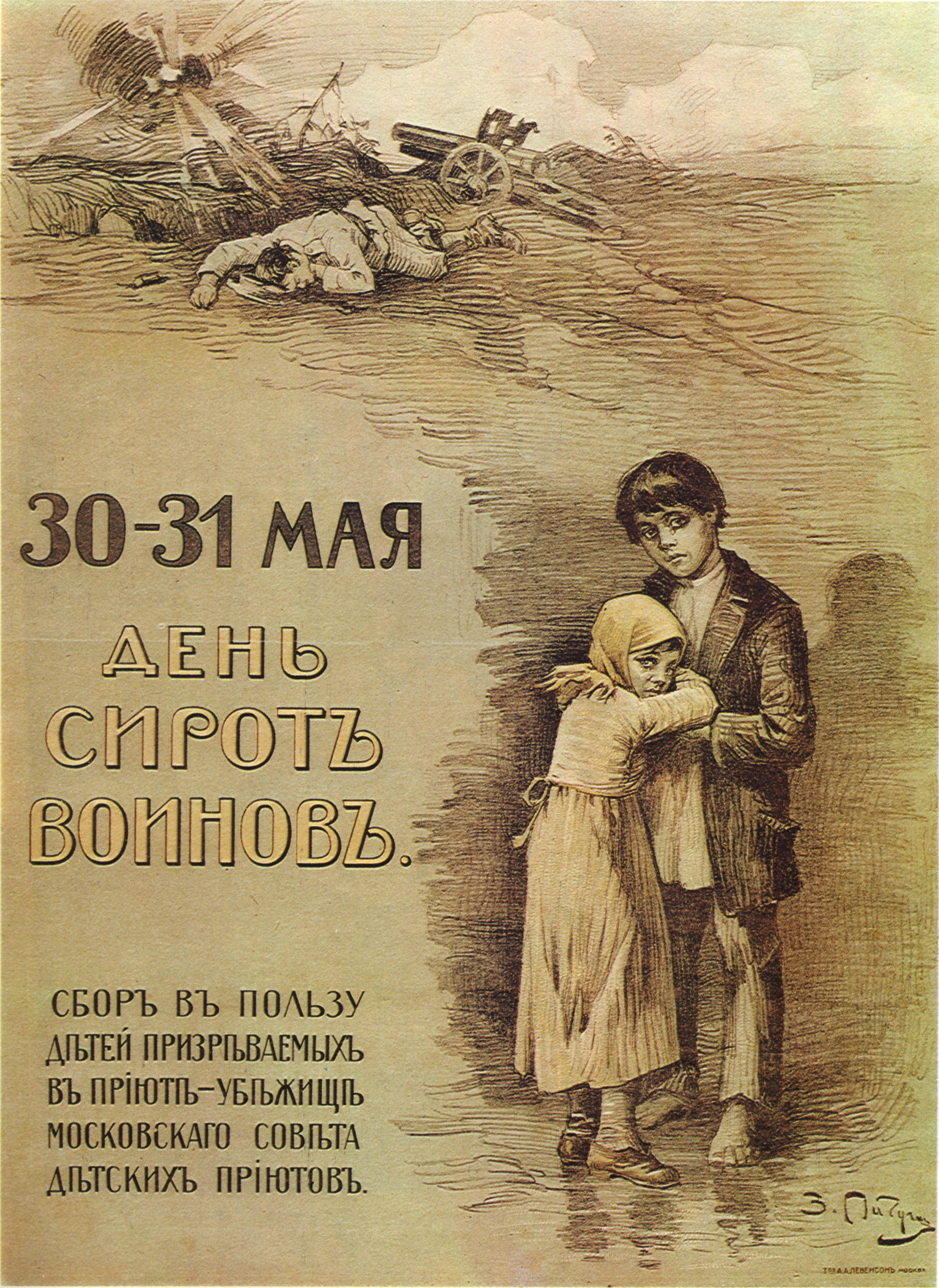 poster